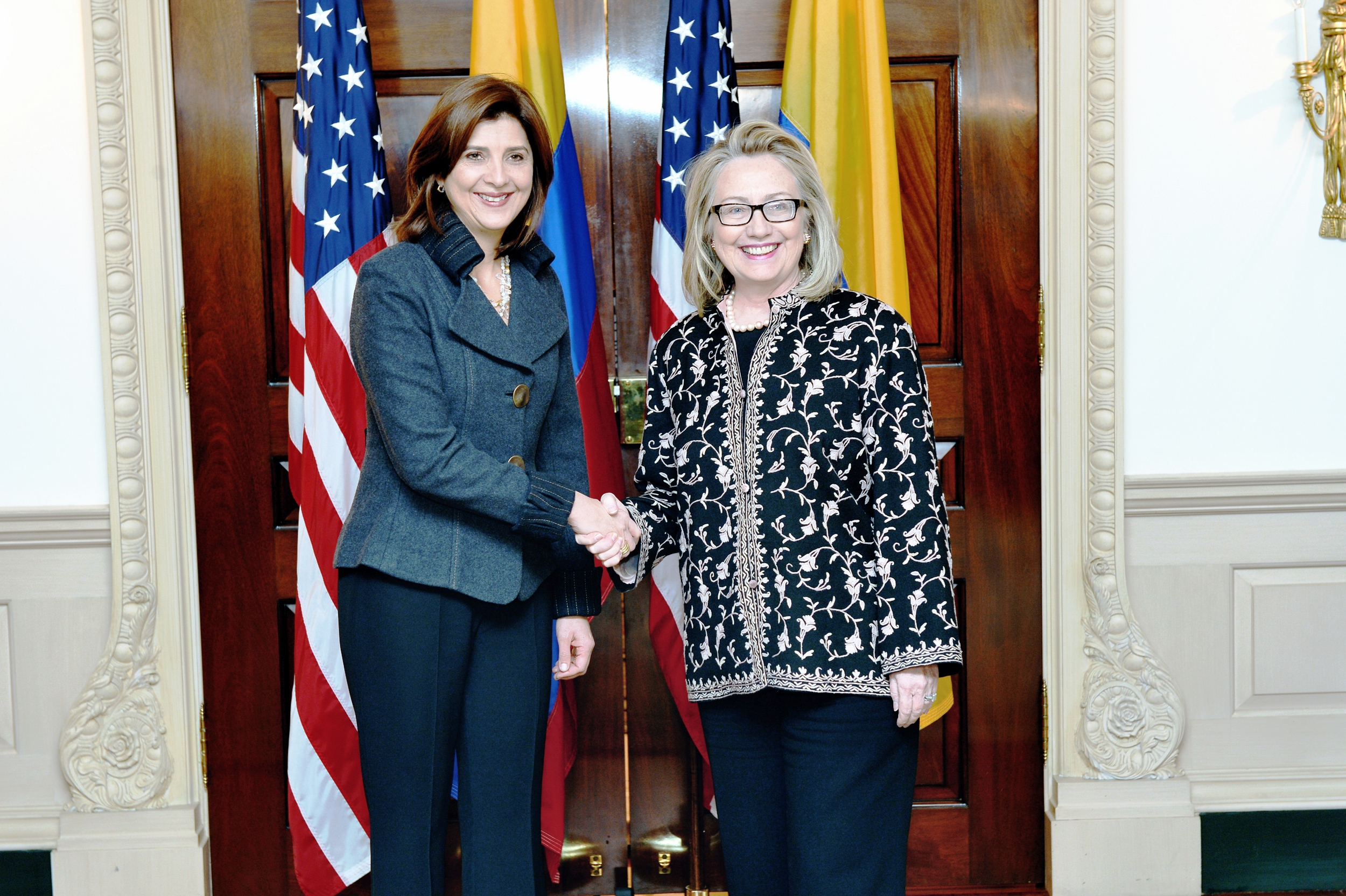 U.S. Secretary of State Hillary Rodham Clinton meets with Colombian Foreign Minister Maria Angela Holguin Cuellar at the U.S. Department of State in Washington, D.C., January 15, 2013. [State Department photo/ Public Domain]